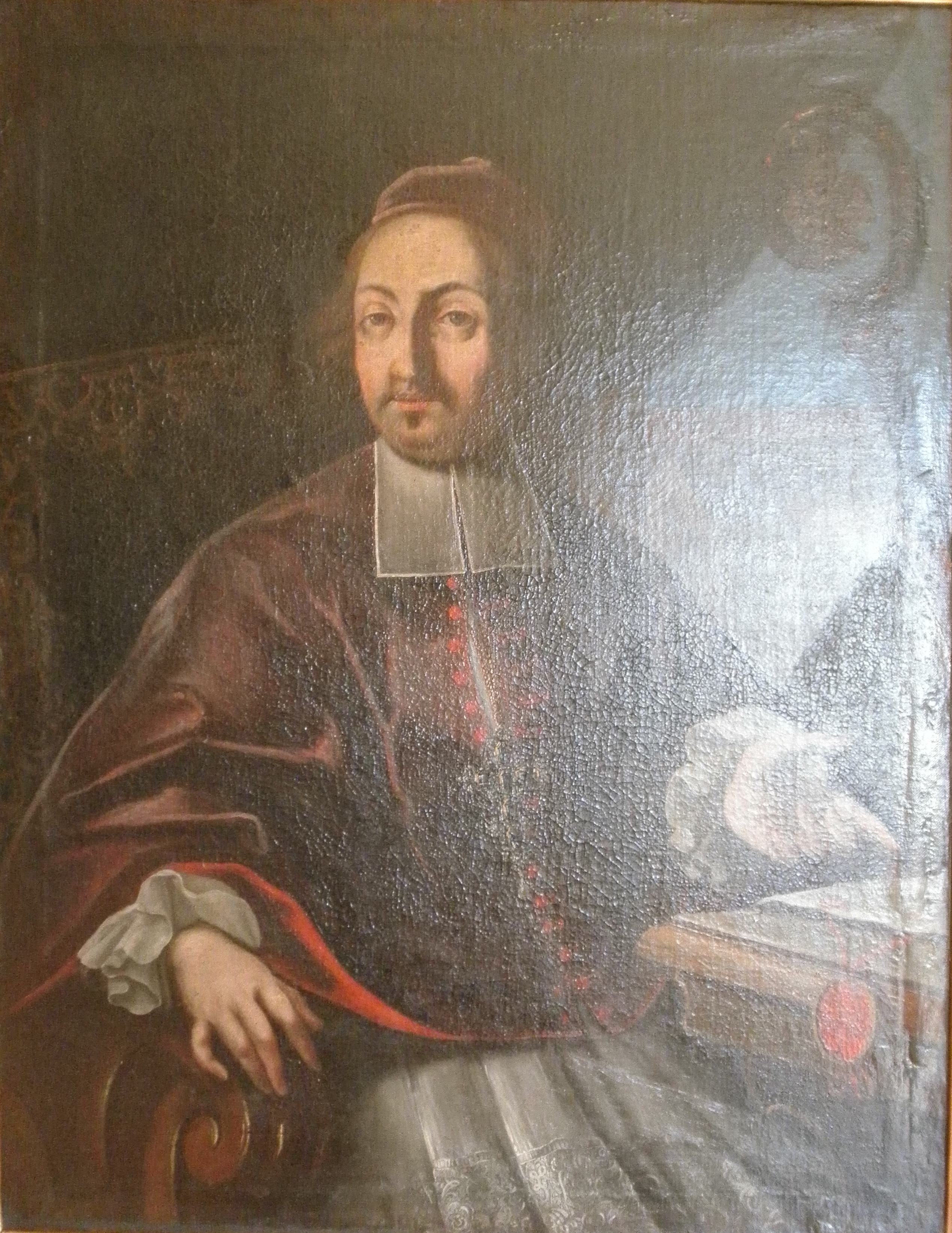 Portrait of Olomouc bishop Vilém Prusinovský z Víckova. From a collection of 22 portraits of prominent persons who contributed to the development of the (later) Palacký University in Olomouc. Owner: Palack7 University in Olomouc. Photo taken in the Regional Museum in Olomouc.